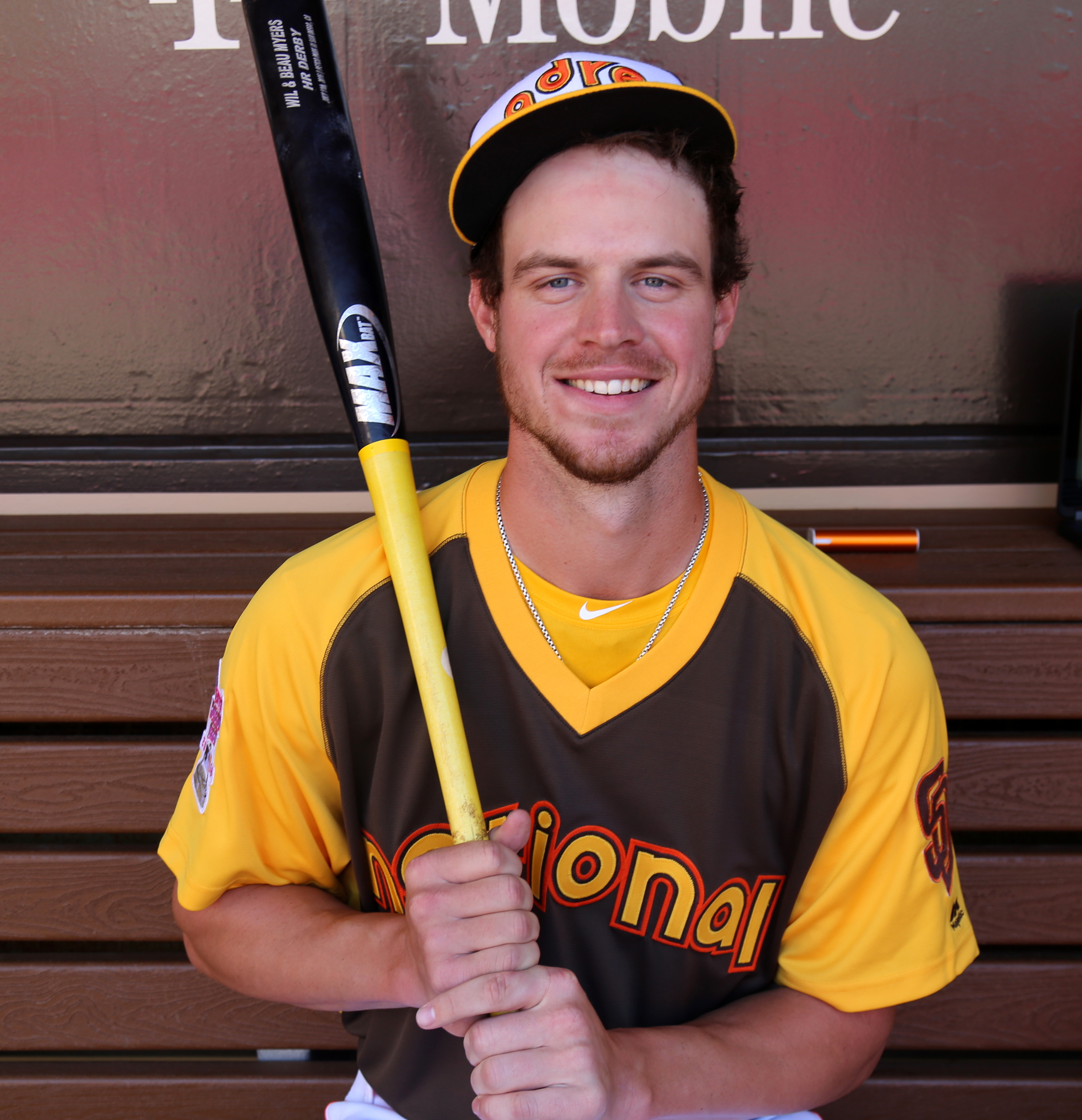 Will Myers is ready to go in the 2016 T-Mobile #HRDerby.